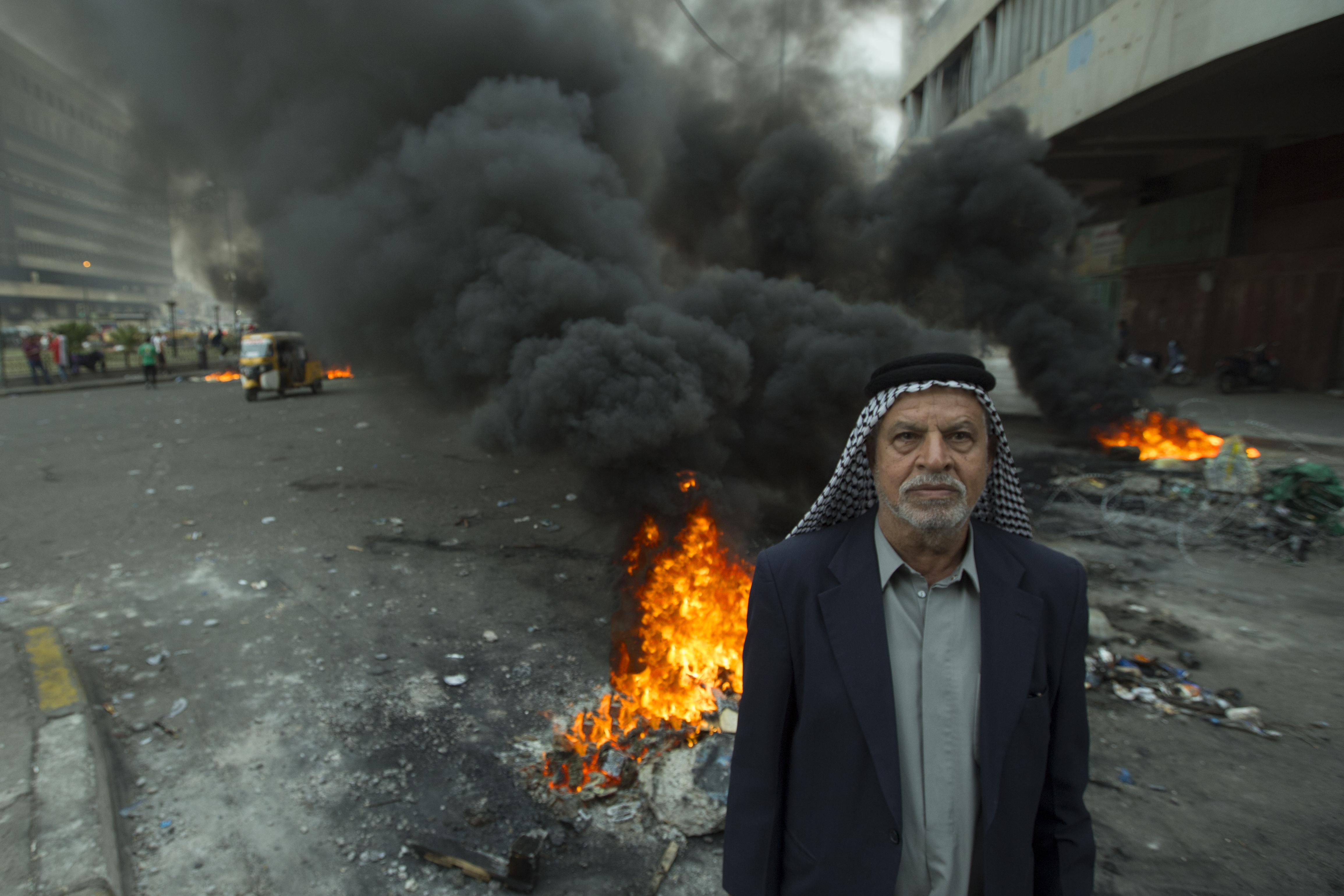 A man crosses the street, announcing civil disobedience in the October Revolution